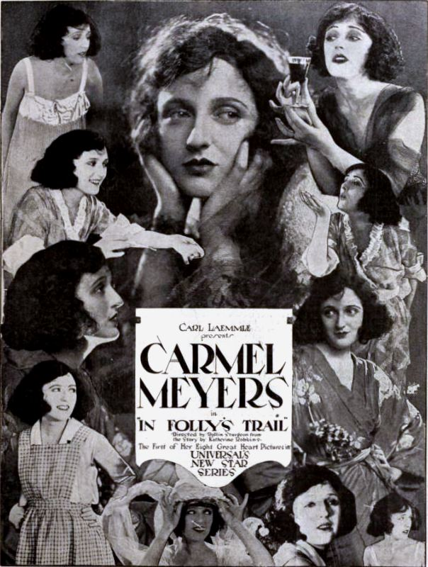 Advertisement for the American drama film In Folly's Trail (1920) with Carmel Myers, on page 3 of the September 4, 1920 Exhibitors Herald.